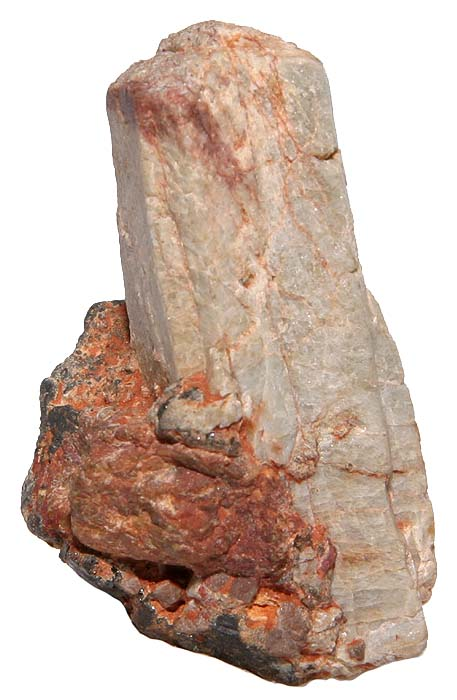 Thortveitite Locality: Ljoslandsåsen (Hålandsgruva), Iveland, Aust-Agder, Norway (Locality at ) Size: miniature, 4 x 2 x 2 cm Thortveitite This ugly beast is one of the most impressive examples of the species, that I think could exist. It is a 3-dimensional, sharp, well-formed, 4cm crystal of this rare scandium-containing species. It is from the noted collection of Jean Behier.